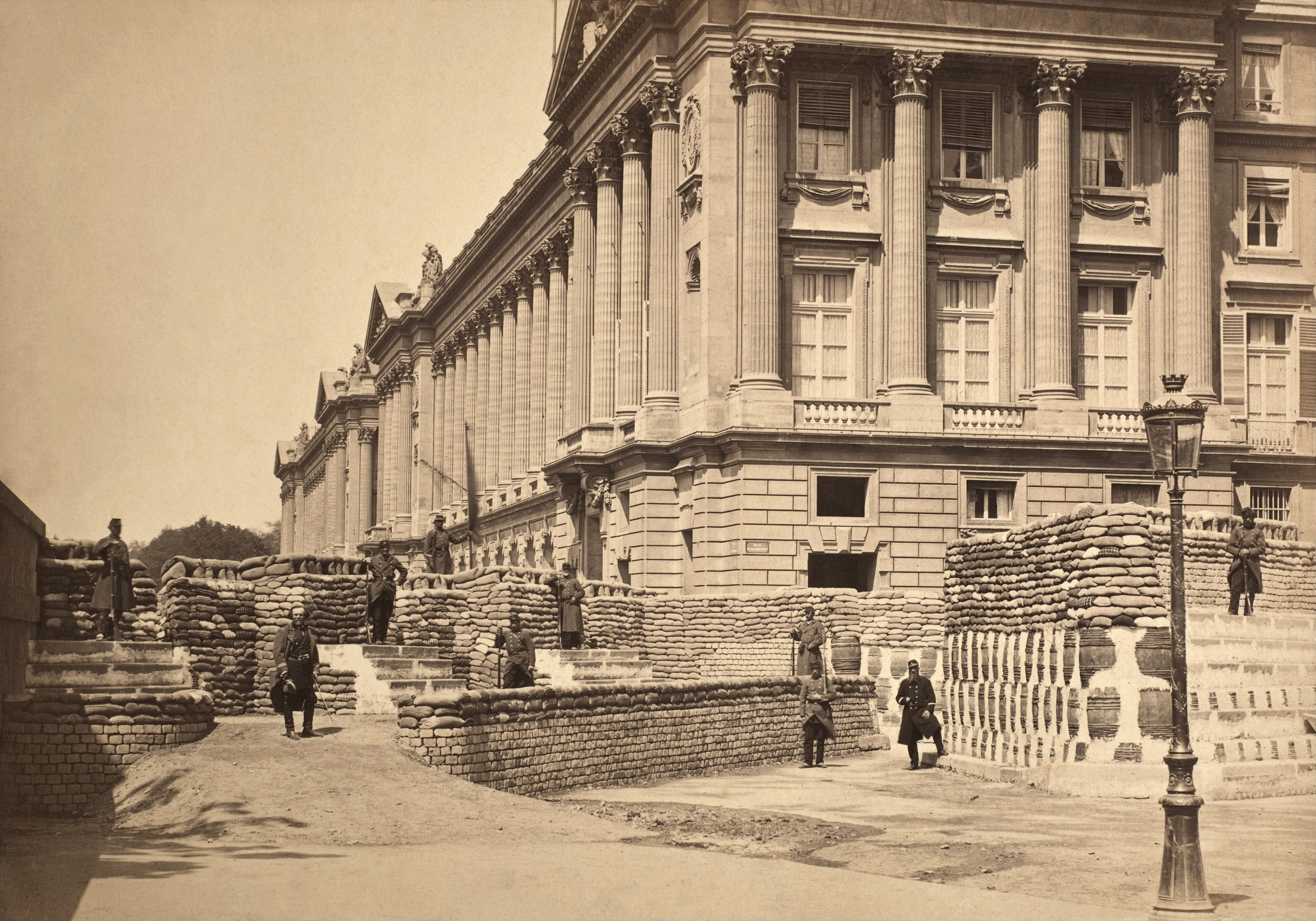 Barricades during the Paris Commune, near the Ministry of Marine and the Hotel Crillon.